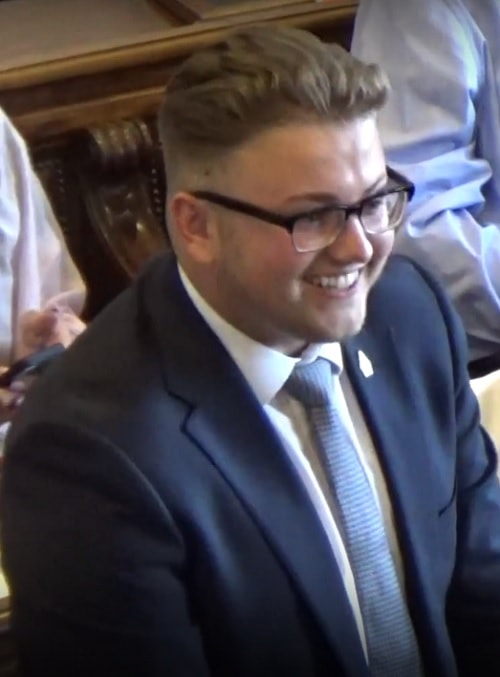 Video screen capture of Cllr Warren Ward.